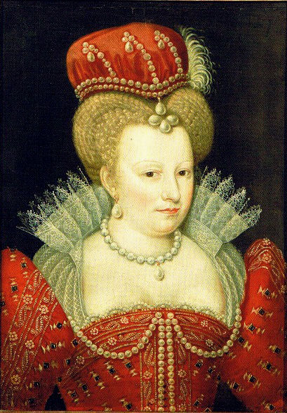 Portrait of Margaret of Valois (1553-1615)